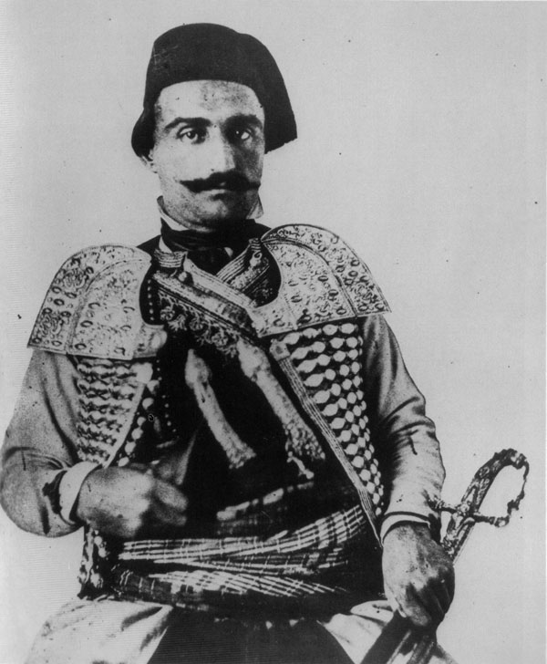 Photography of an actor playing Hajduk-Veljko.